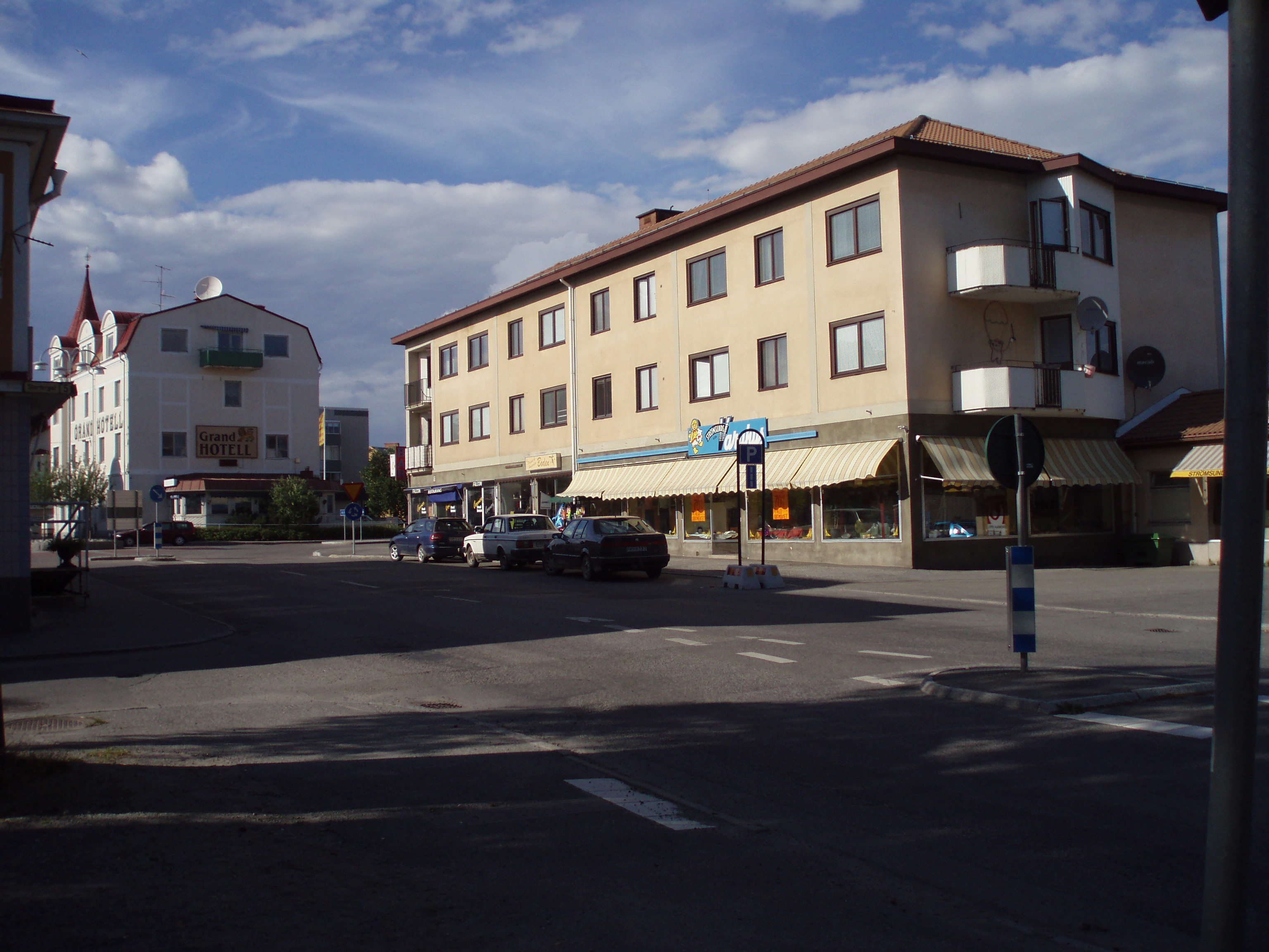 Strömsund, Sweden, Bredgårdsgatan. Photo taken in aug. 2006 by me - User:Cucumber